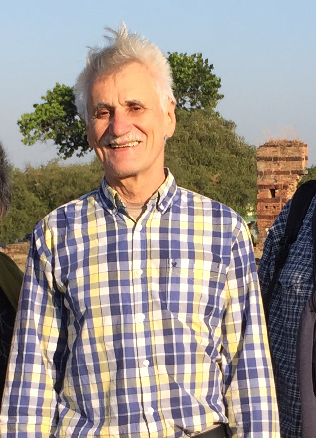 The historian Barend J. Terwiel photographed in the Ayutthaya Grand Palace on 20 December 2017